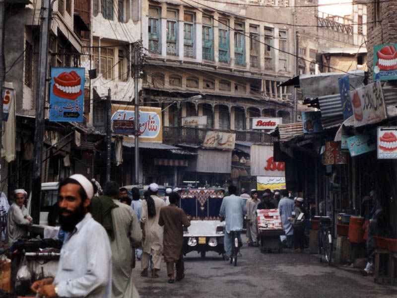 Street in Peshawar, taken from Wikitravel. This is the work of Wikitravel user Janki, who has placed it under the Creative Commons 3.0 license.